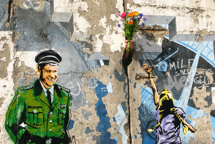 A watchful soldier observes with glee a young girl jumping for flowers from the other side of the Berlin wall.